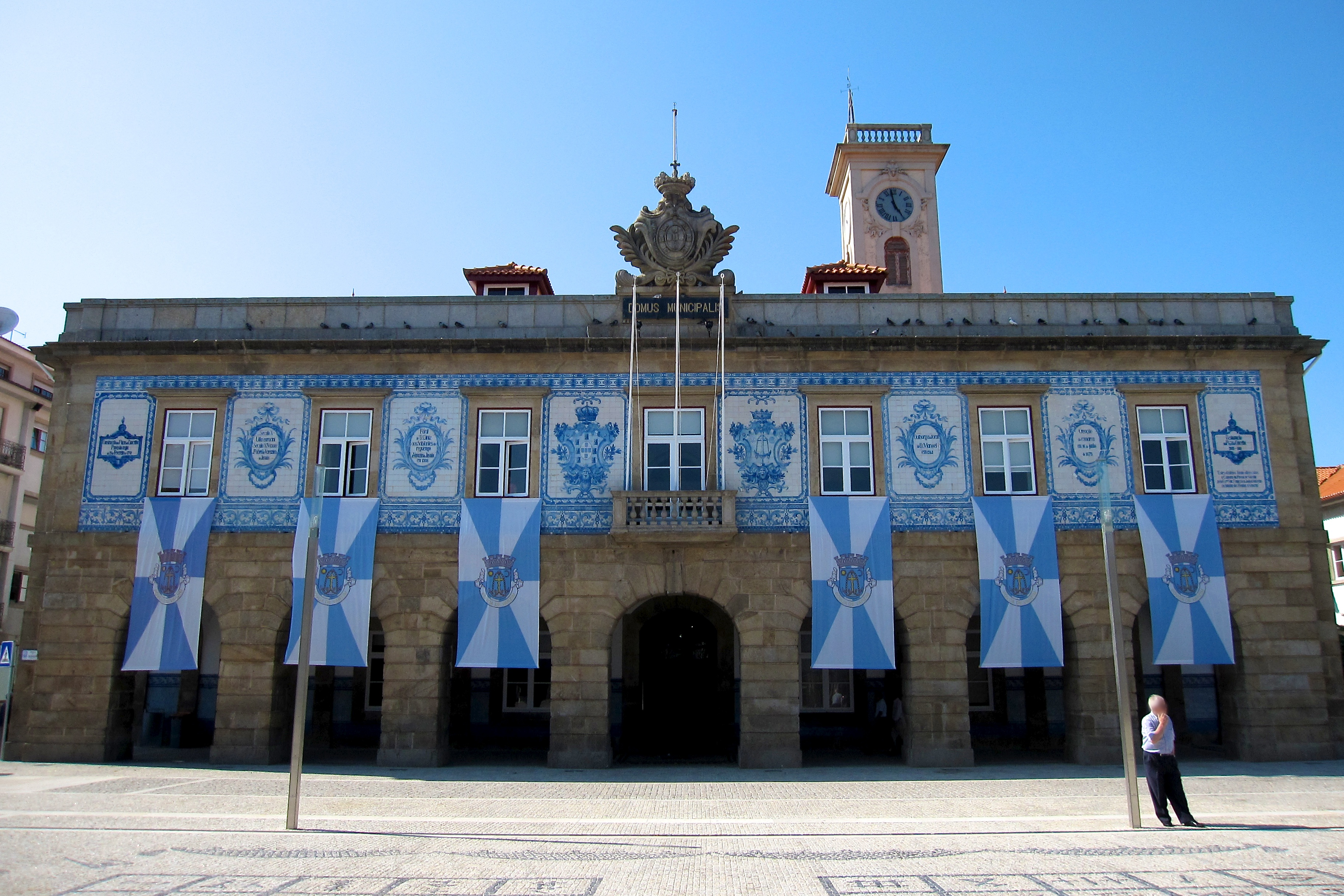 This file was uploaded for Wiki Loves Monuments in Portugal with the unique identifier 74561.